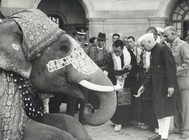 Jawaharlal Nehru, Dalai Lama and Panchan Lama with an elephant at Rashtrapati Bhavan, New Delhi, December 1956